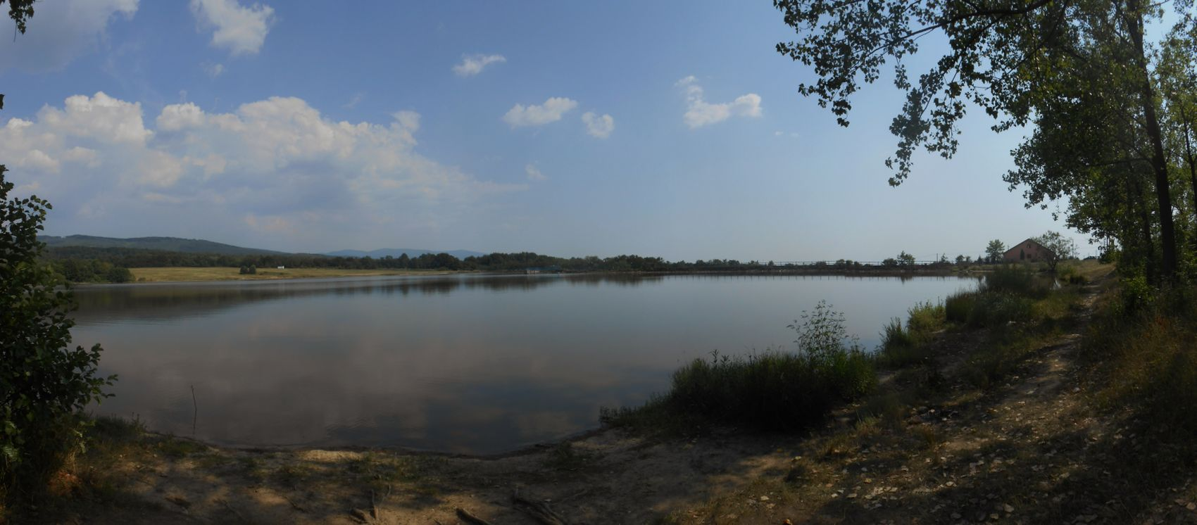 Pond near Vyšná Rybnica village